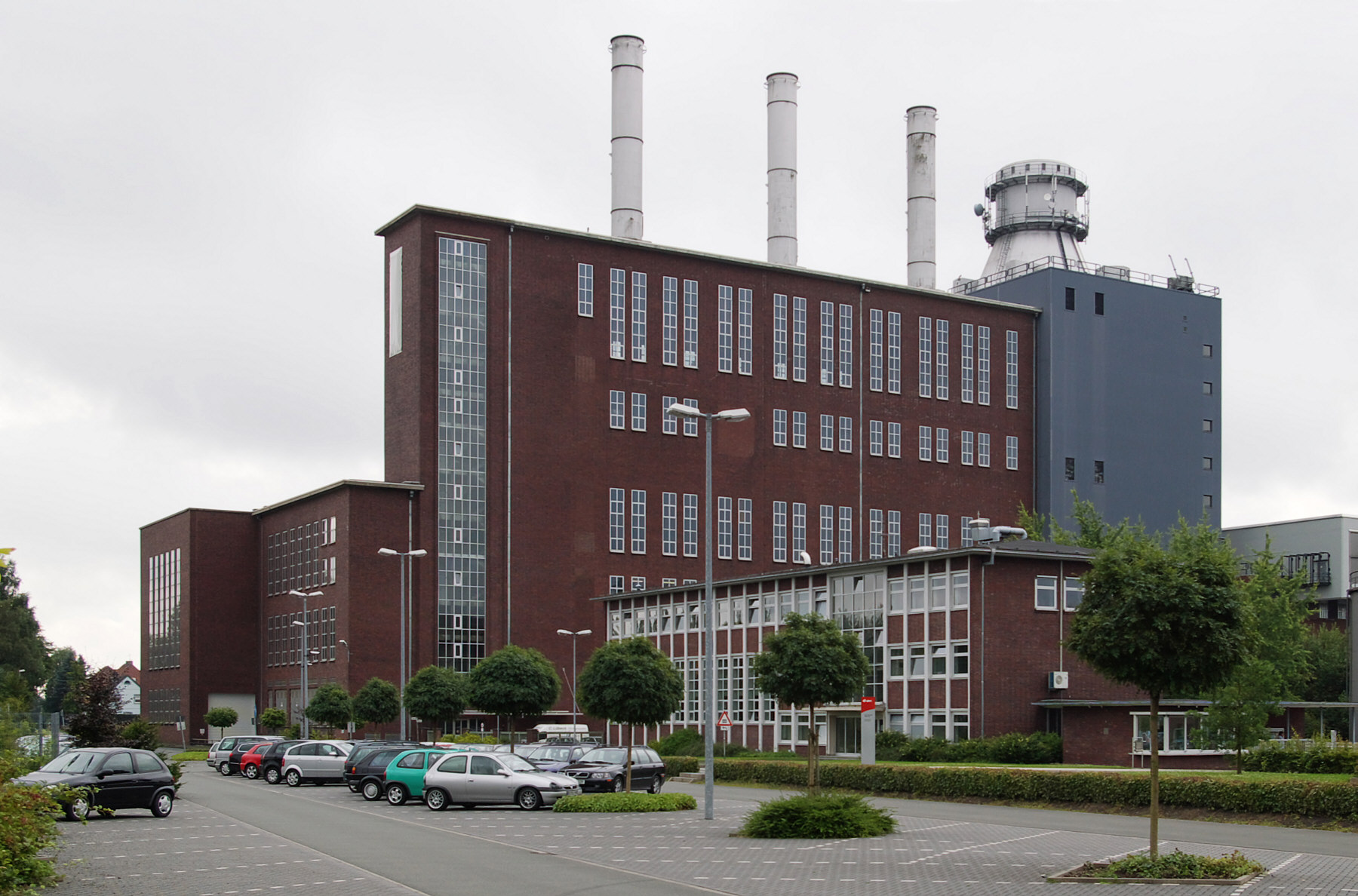 Power plant in town of Kirchlengern, District of Herford, North Rhine-Westphalia, Germany.